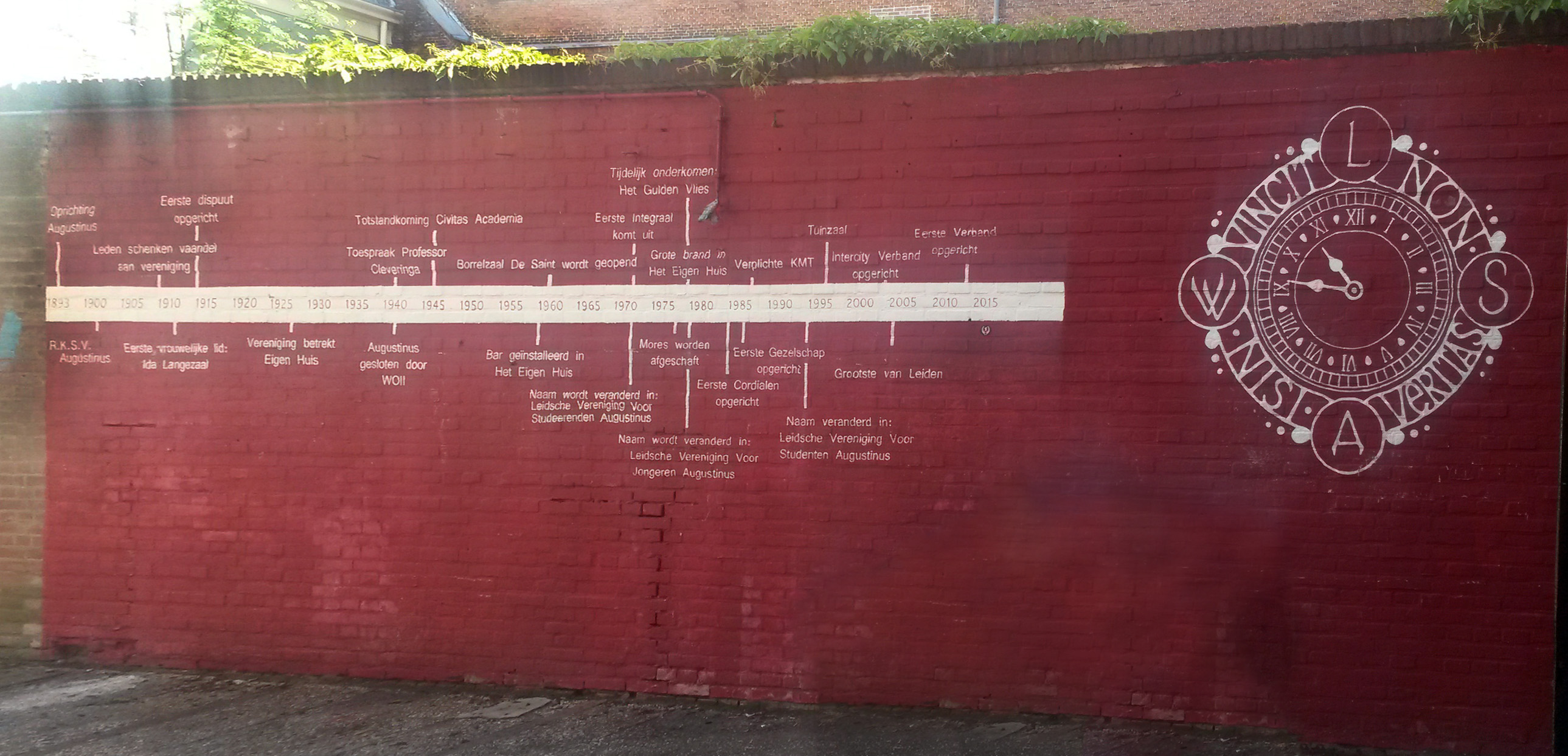 Timeline of student association Augustinus of Leiden